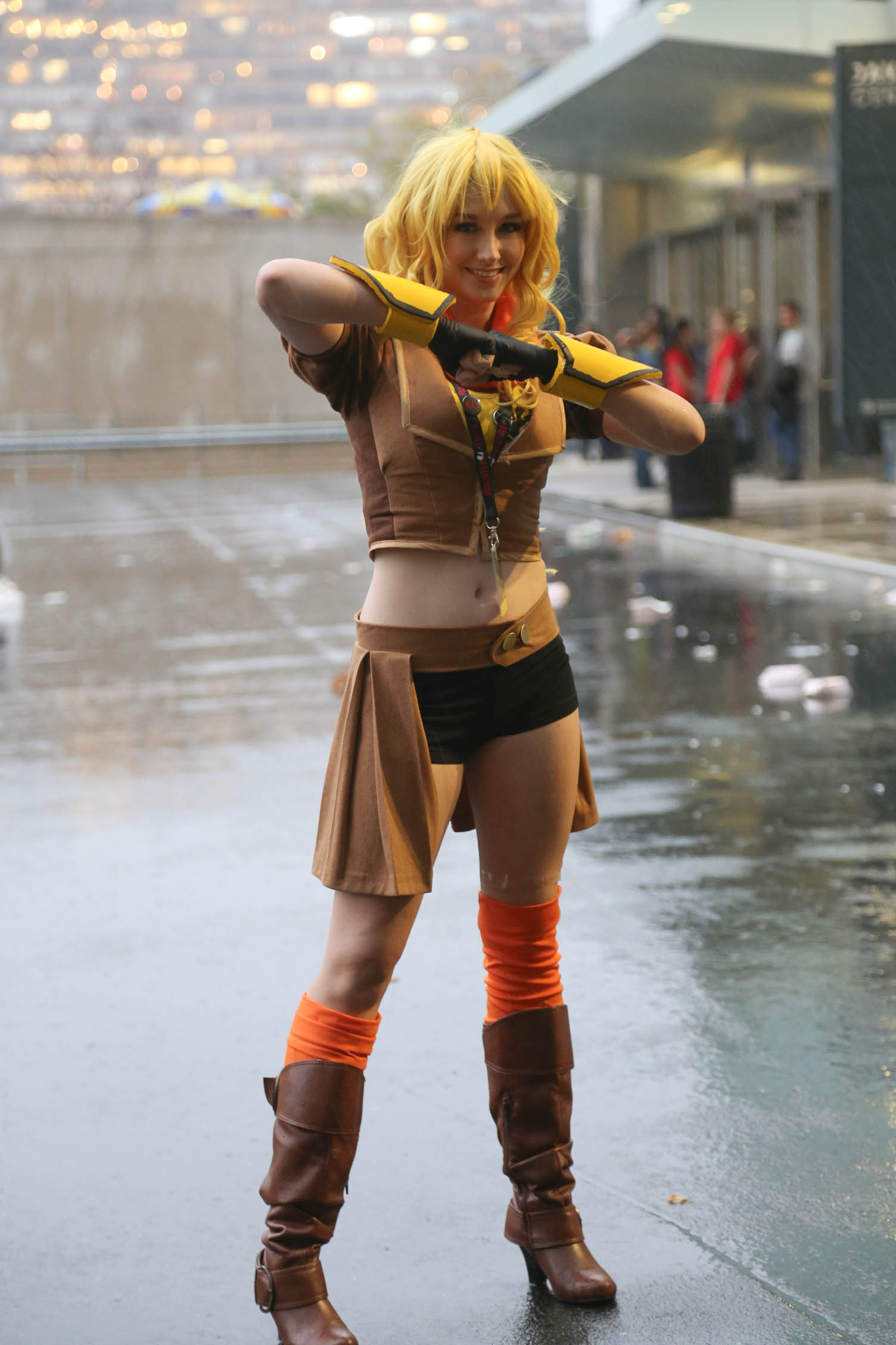 New York Comic Con 2015 - Yang Cosplay at the 2015 New York Comic Con (NYCC 2015).